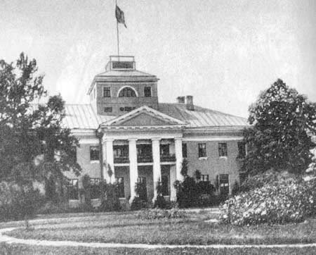 Ostashovo Palace of Grand Duke Constantine Constantinovich